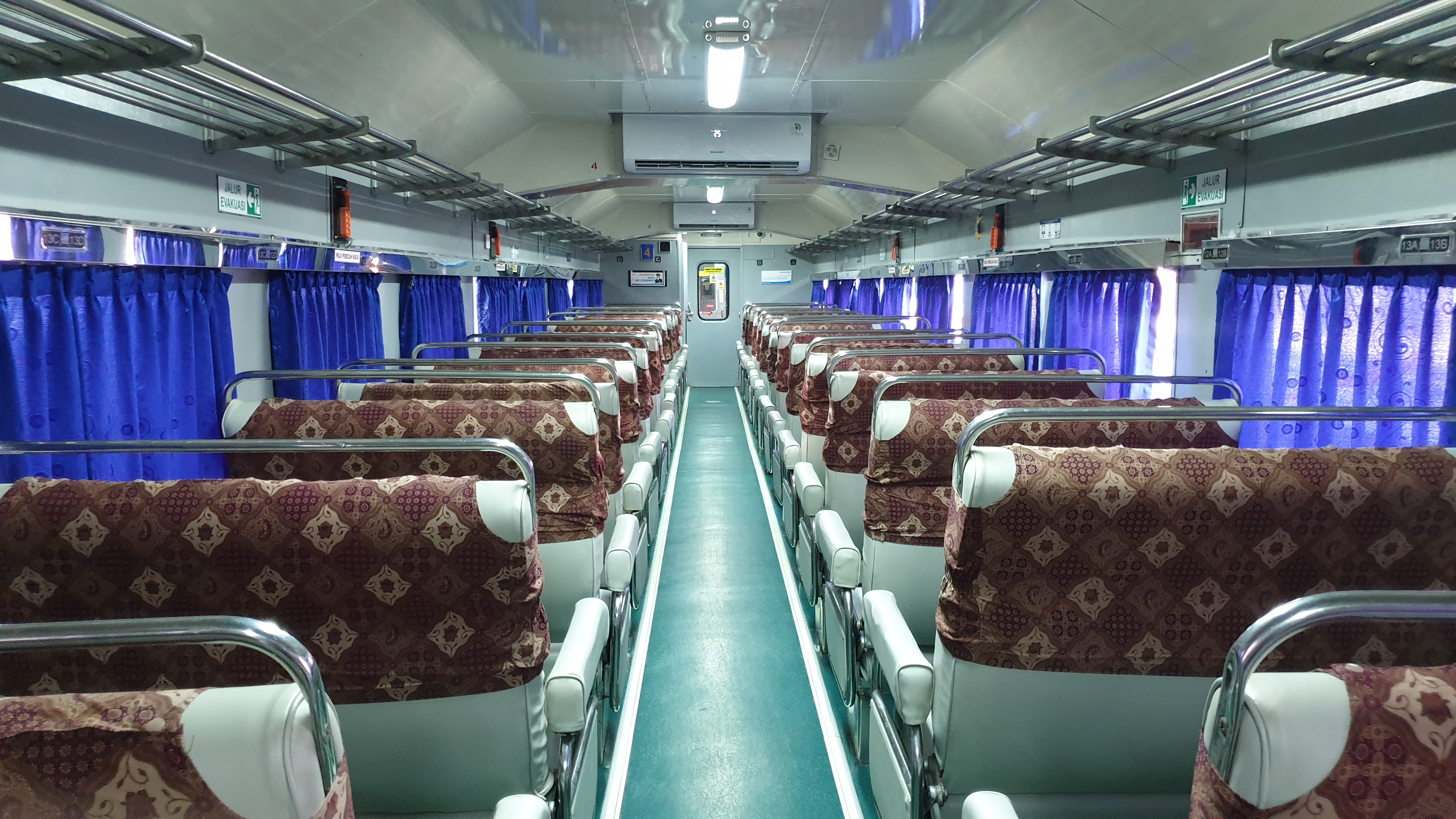 Sancaka Utara business class interior.